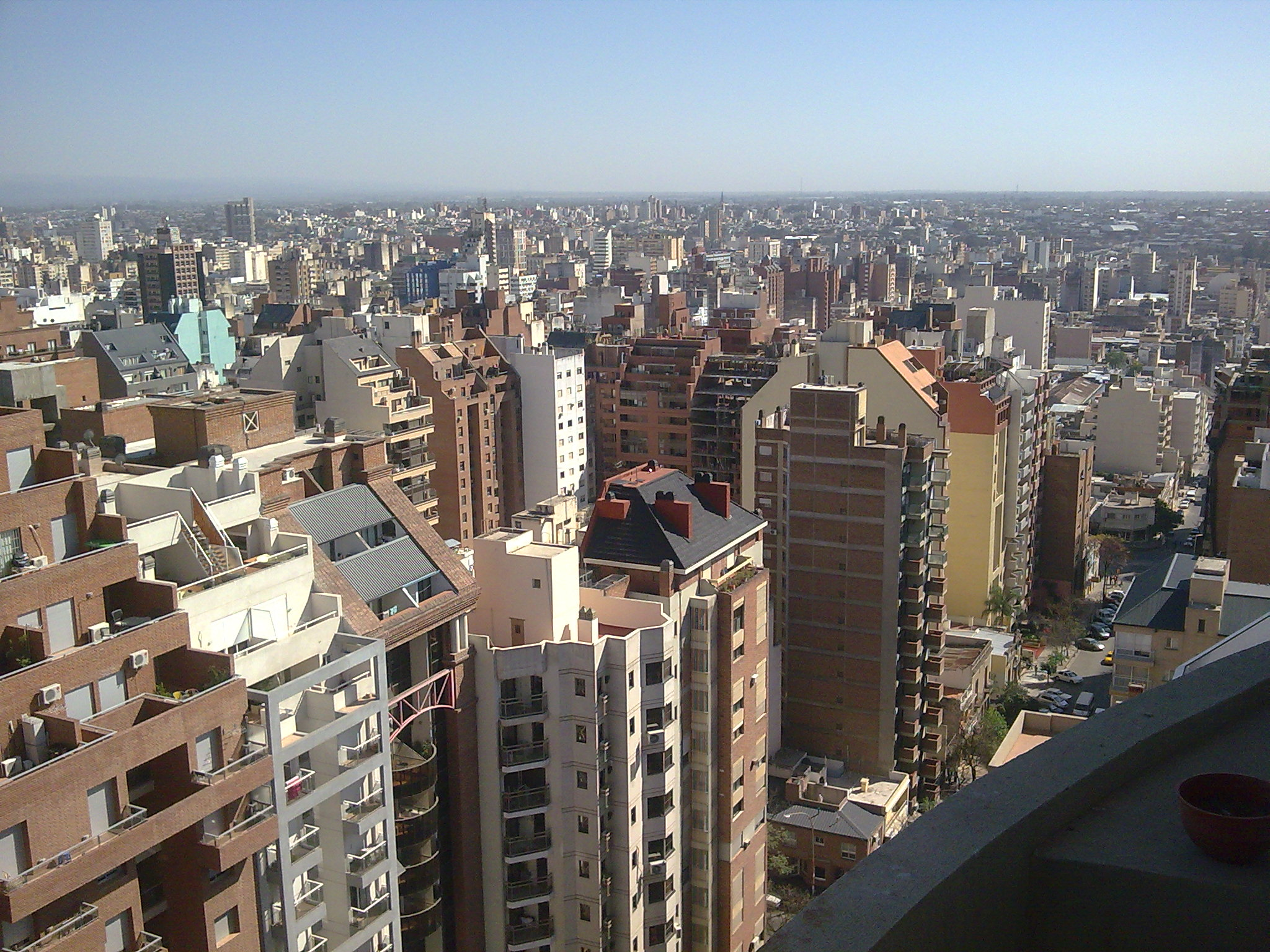 Cordoba skyline. Photo taken from the 18th floor of the Elysee tower, Nueva Cordoba neighborhood. Cordoba, Argentina.